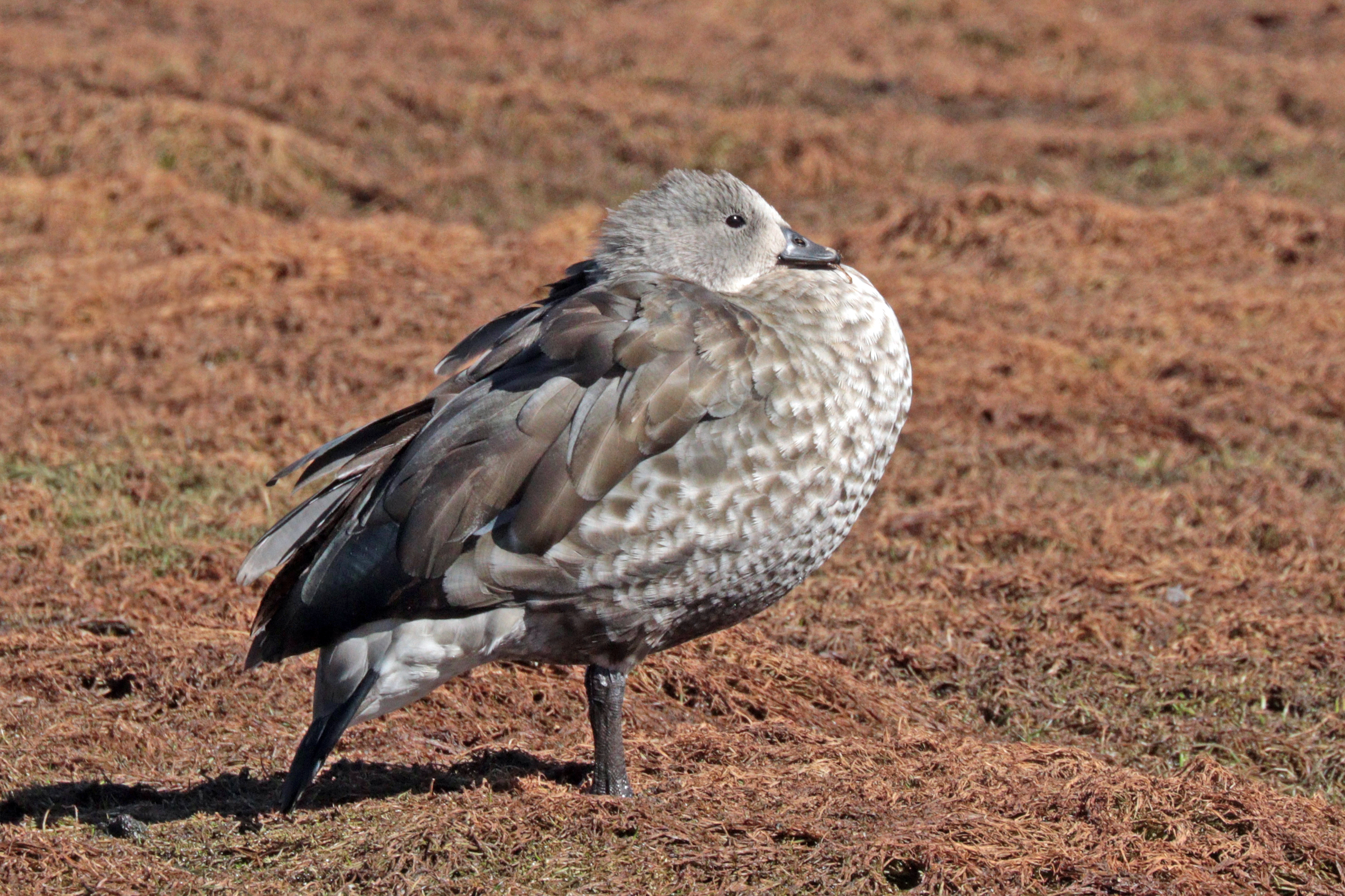 Blue-winged goose (Cyanochen cyanoptera), Bale Mountains, Ethiopia